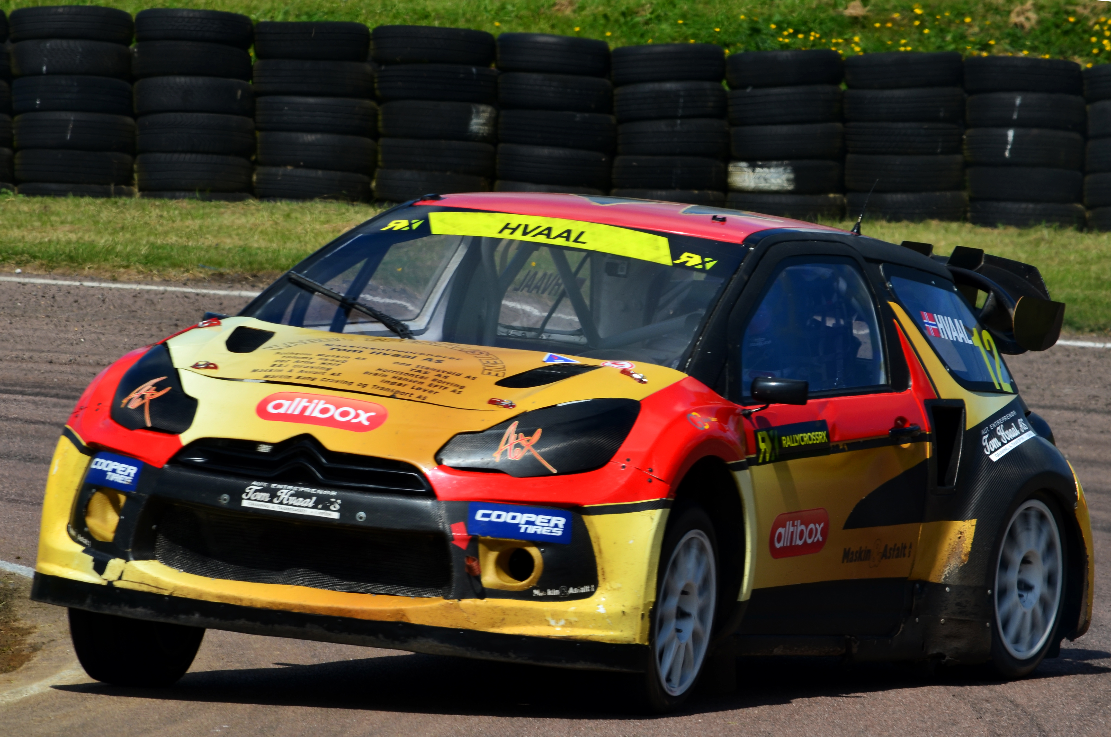 Norwegian rallycross driver Alexander Hvaal in his Citroën DS3 Supercar at Lydden Hill. Round 2 of the 2014 FIA World Rallycross Championship.